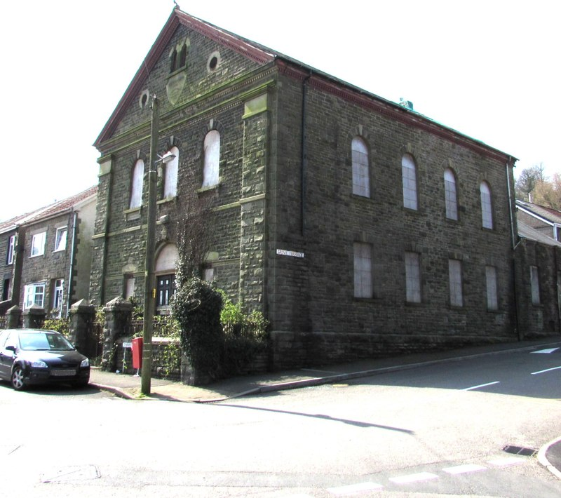 Jerusalem Chapel, Ynysybwl. The derelict building on the corner of Thompson Street and Grove Terrace was Jerusalem, one of the largest chapels in the village, from 1888-1976.